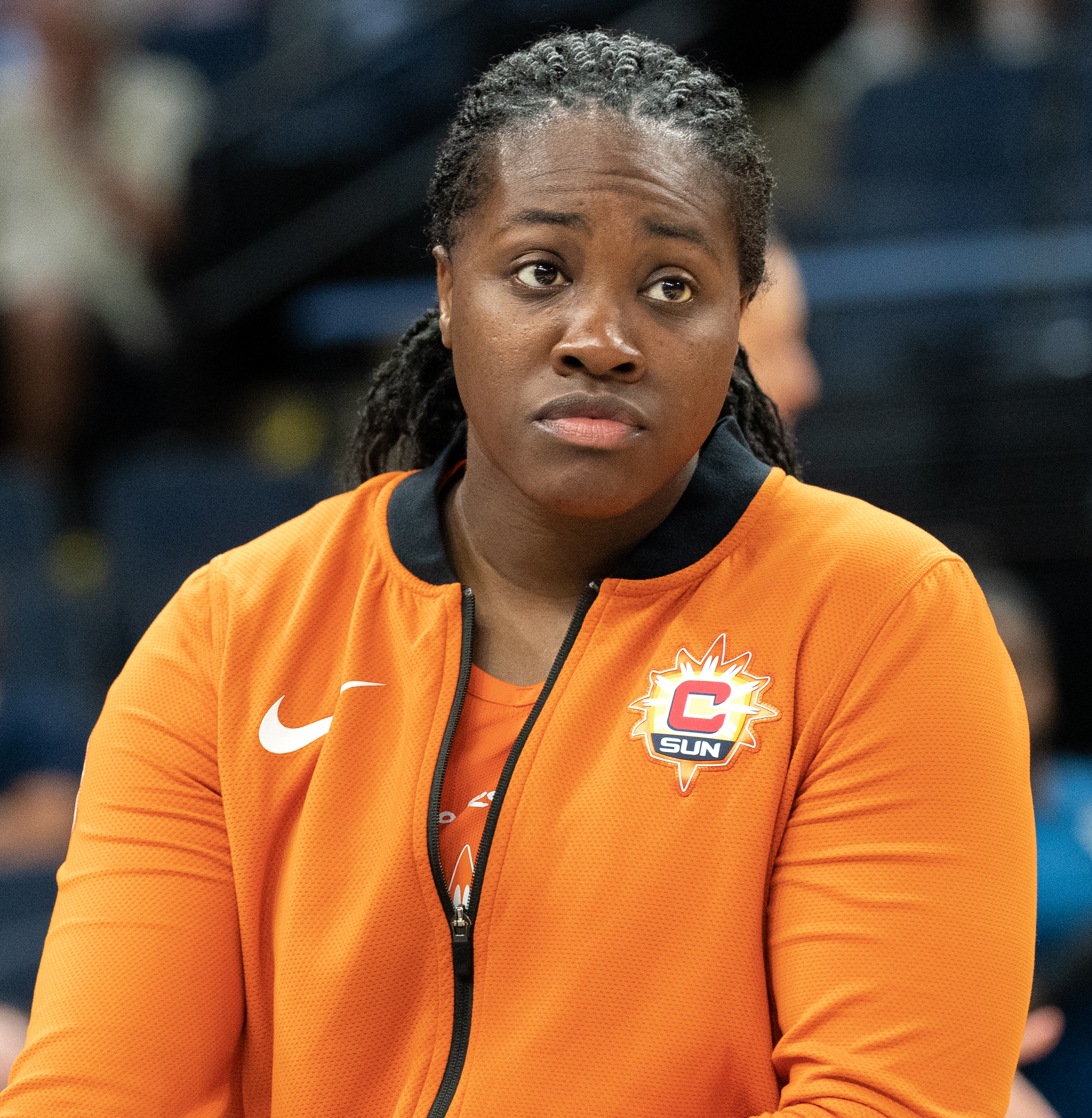 Connecticut Sun player Shekinna Stricklen in a game against the Minnesota Lynx